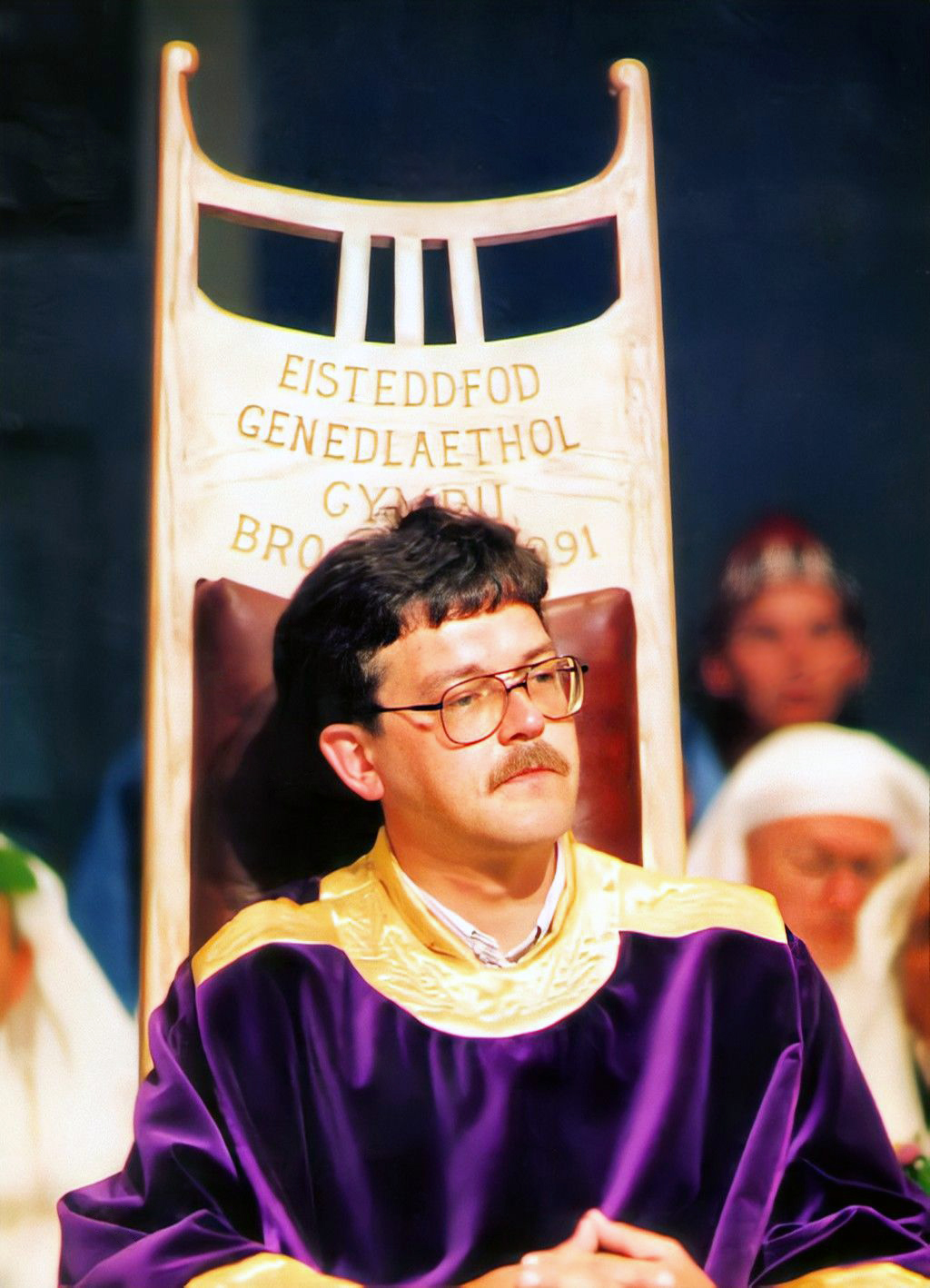 Prifardd Robin Owain, Welsh poet